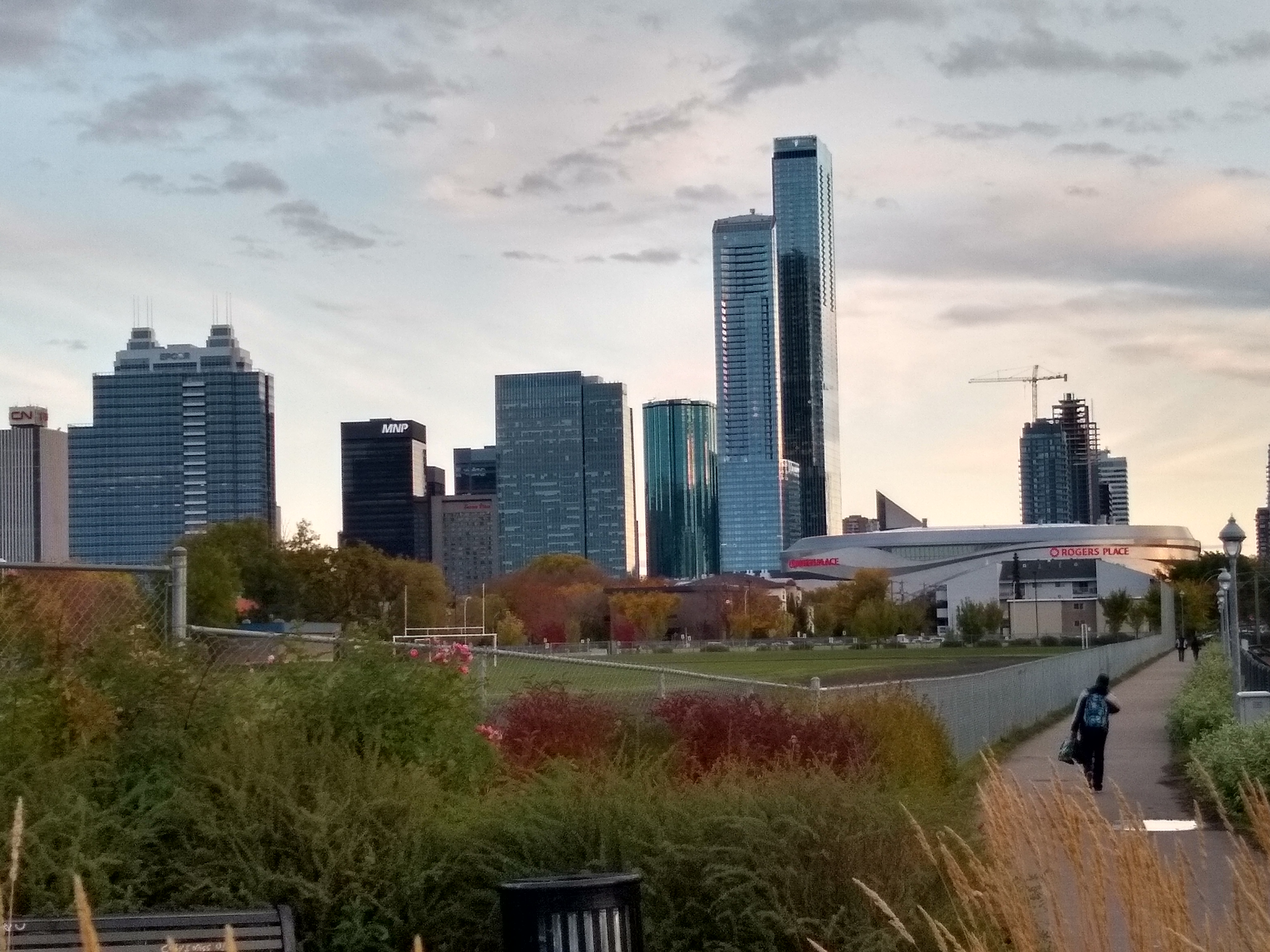 Downtown Edmonton, Canada in Autumn 2019. Taken from Kingsway Avenue and 104 Street (i.e., Victoria School for the Arts sports fields.) Shows Rogers Place, Stantec Tower, JW Marriott Hotel tower, Edmonton Tower, Epcor Tower, Manulife Place, CN Tower (Edmonton) and Encore Tower (under construction.)